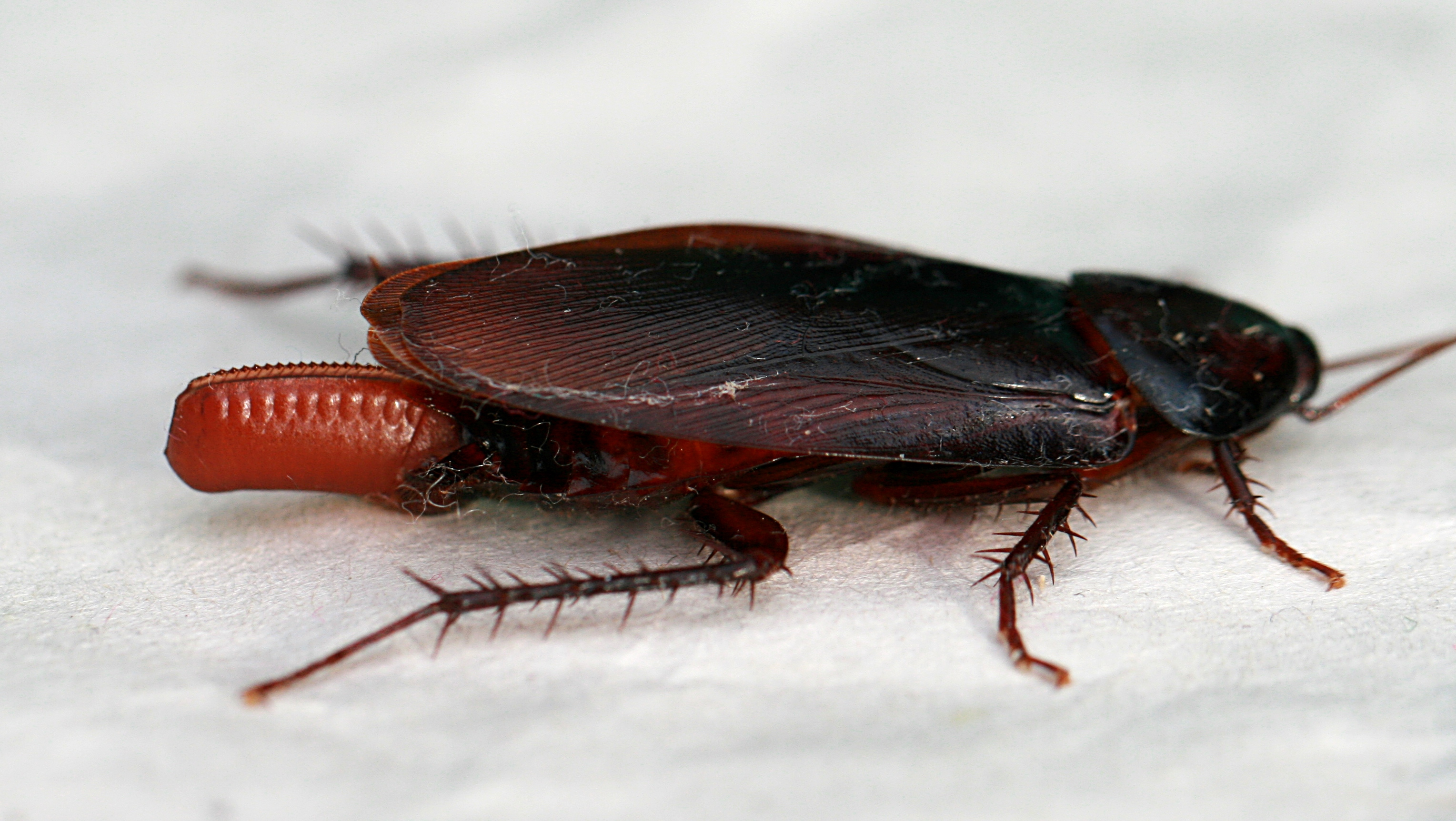 A cockroach (Periplaneta fuliginosa) in Sydney laying an egg capsule.